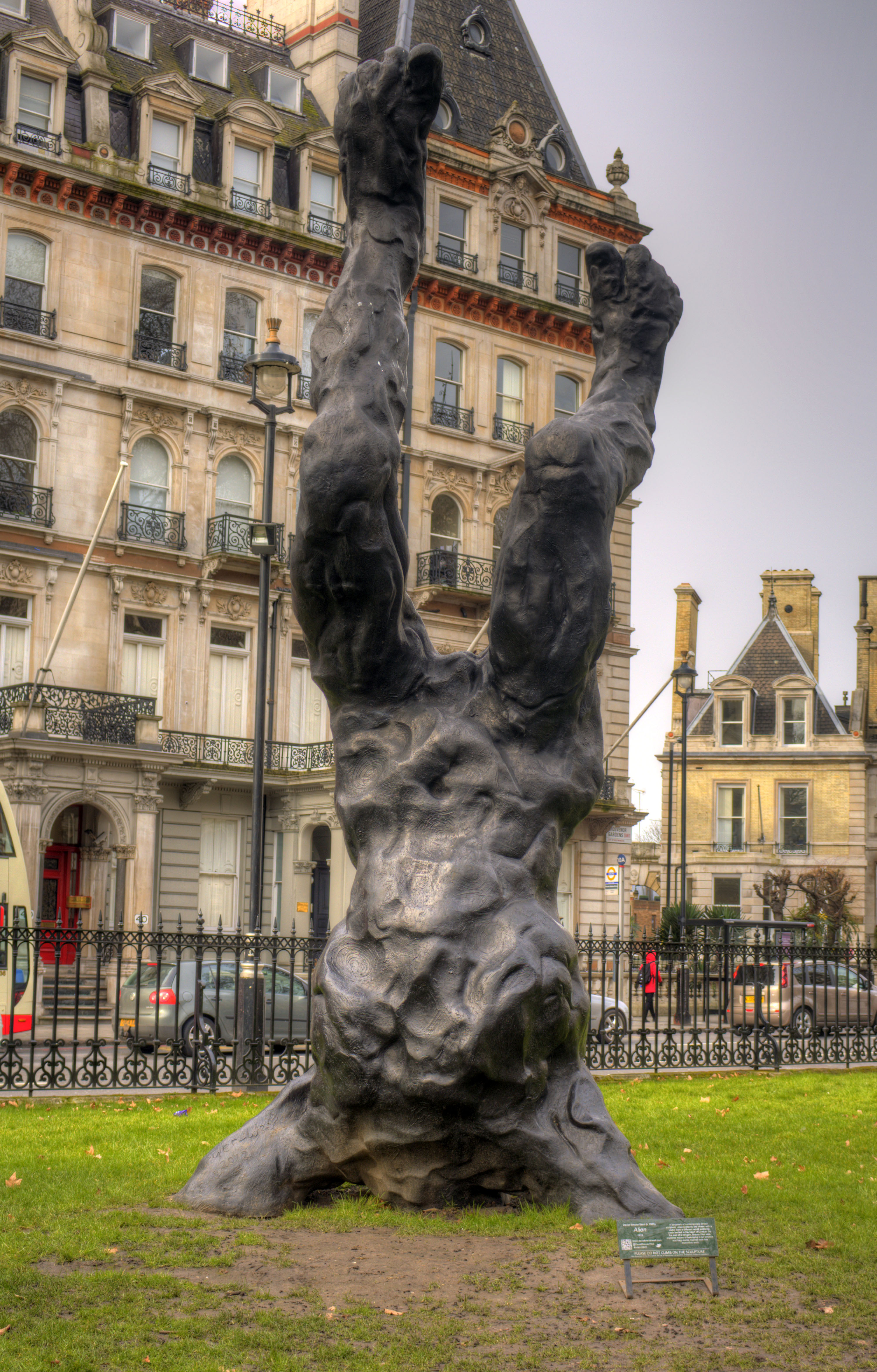 "Alien", a sculpture by David Breuer-Weil, in Lower Grosvenor Gardens in the City of Westminster